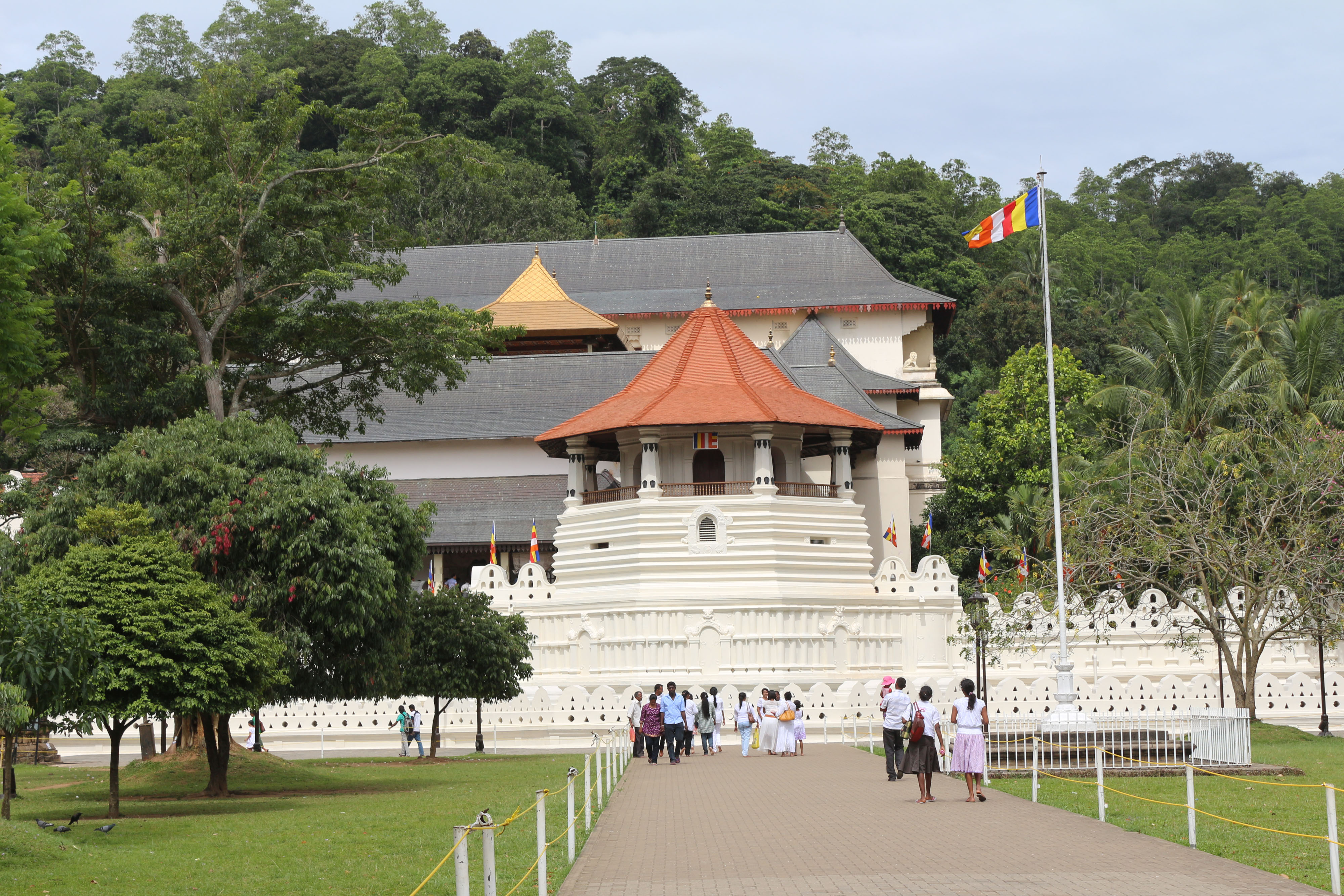 Front view of The Temple of the Tooth in Kandy. සිංහල: මහනුවර දළඳා මාළිගාවේ ඉදිරිපස පෙනුම.